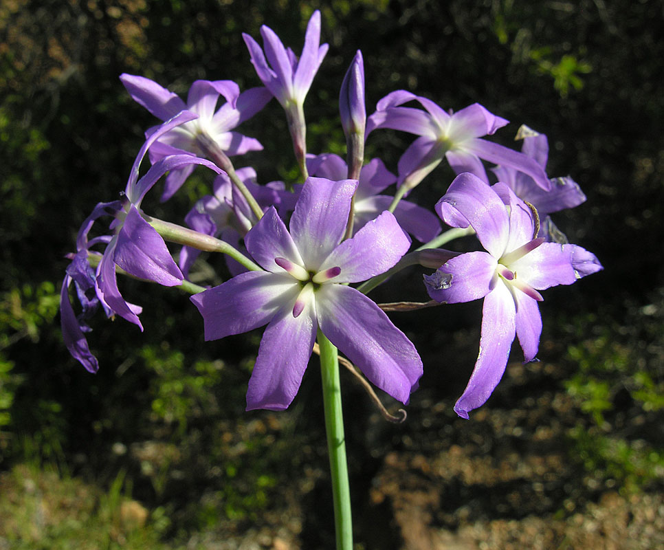 Endemic to central Chile, where it is known as Huilli Morada. In context at